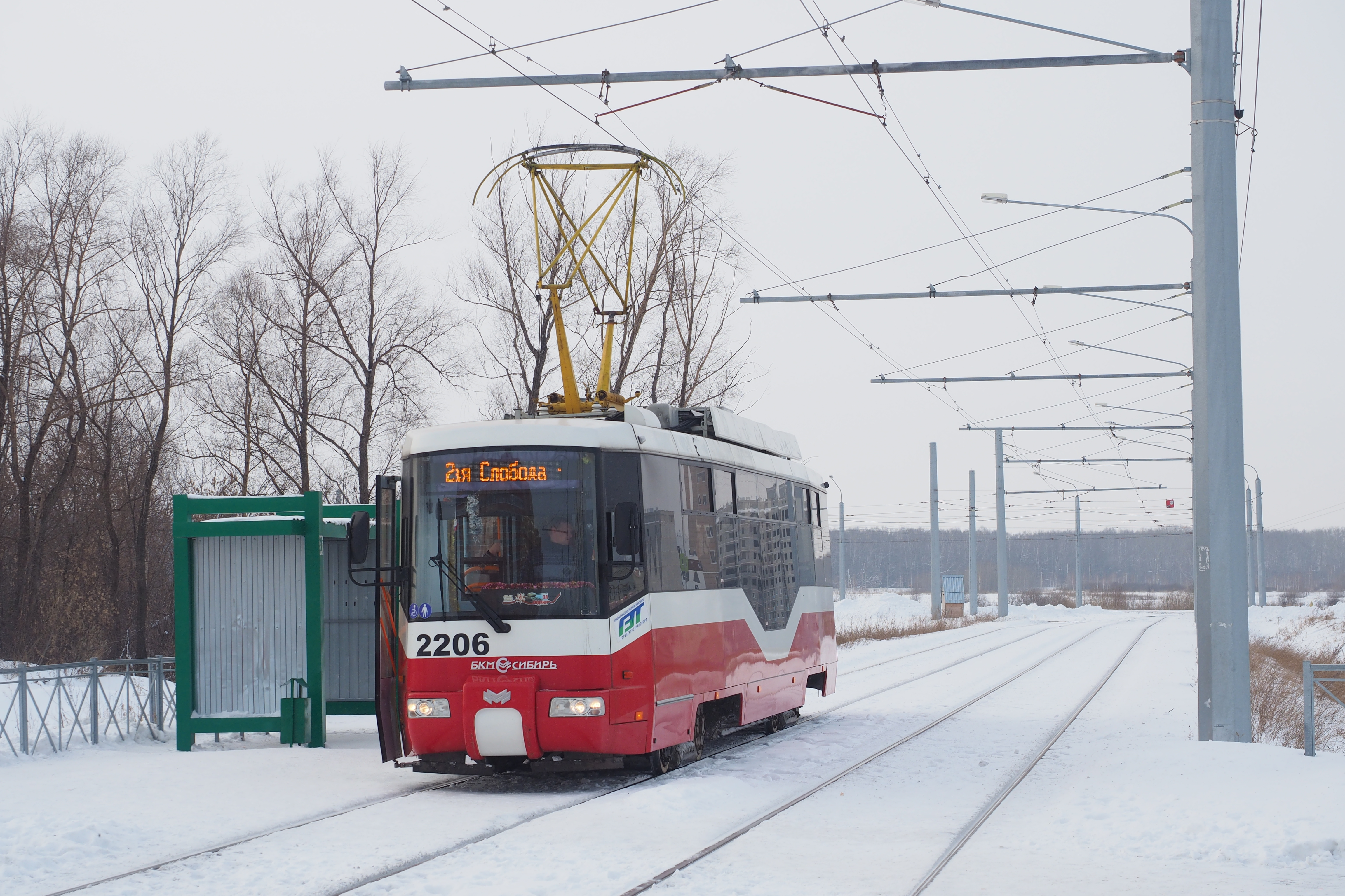 Novosibirsk tram